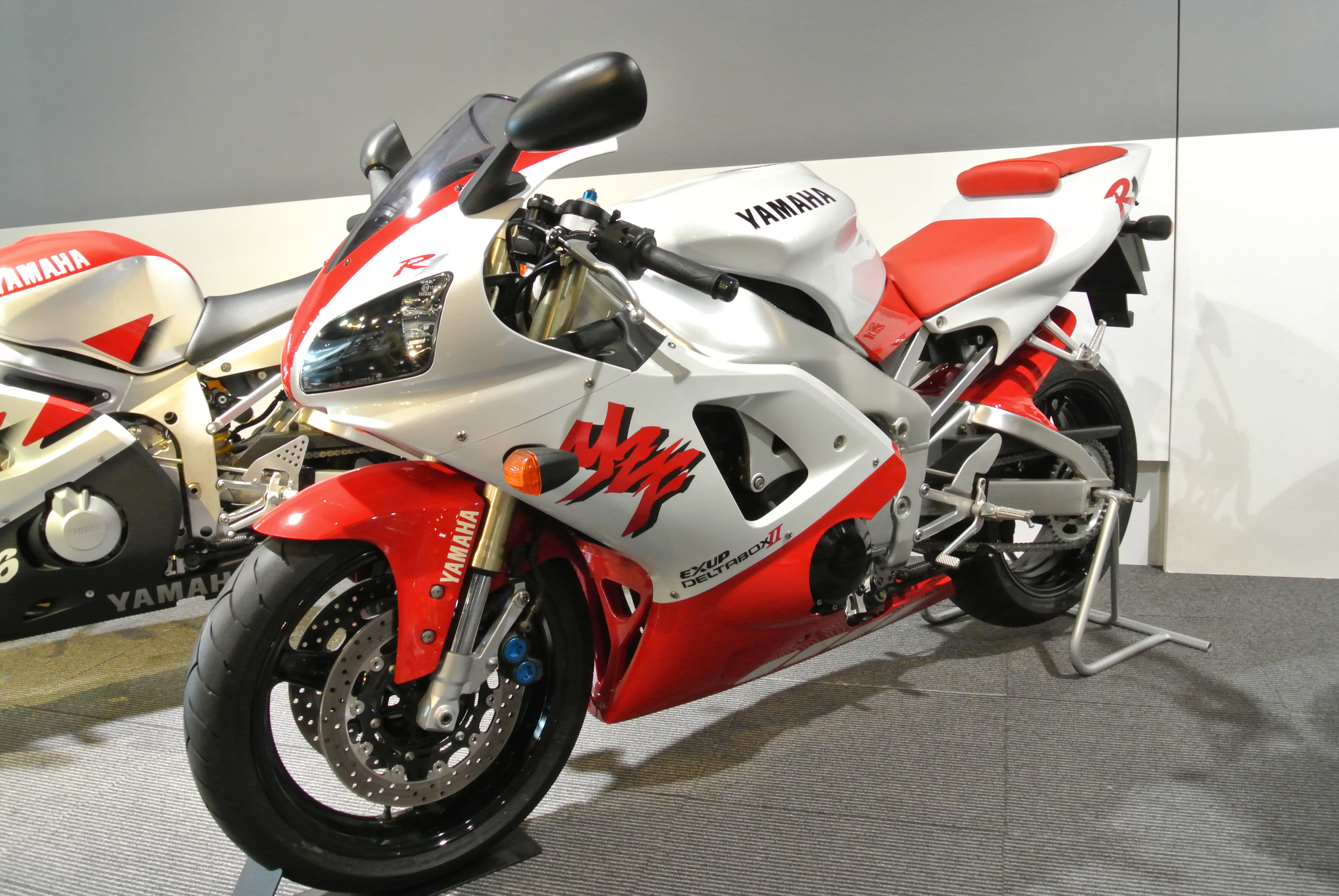 1998 Yamaha YZF-R1 in the Yamaha Communication Plaza.